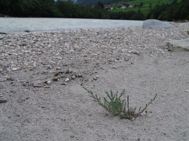 Myricaria germanica seedling in Serfaus, Tirol